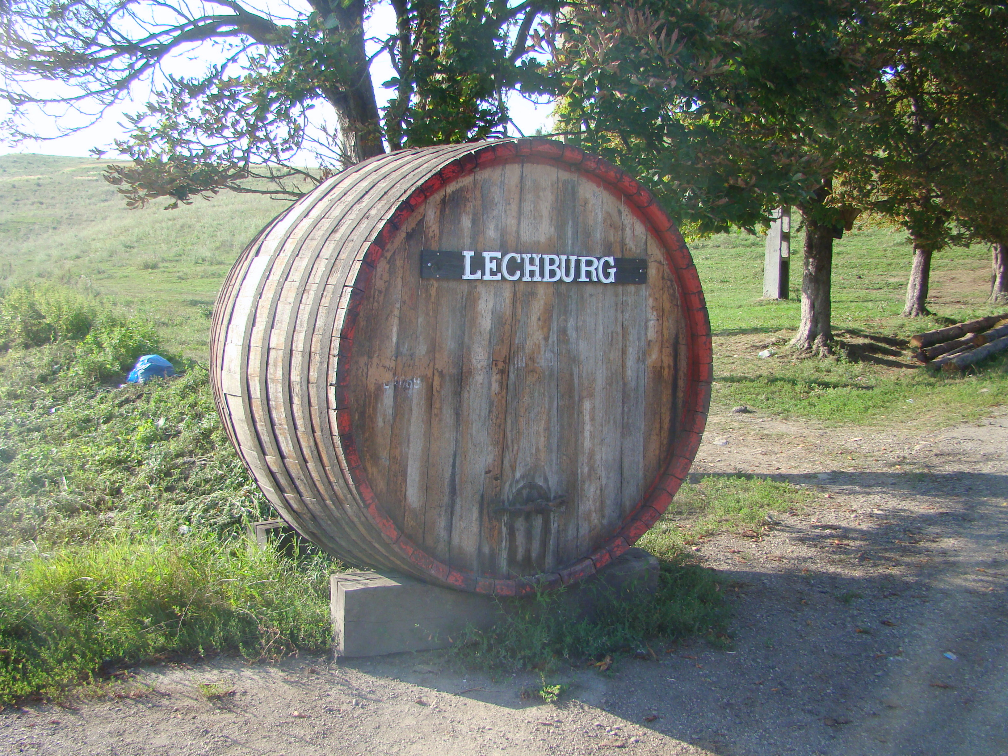 Lechința, Bistrița-Năsăud county, Romania